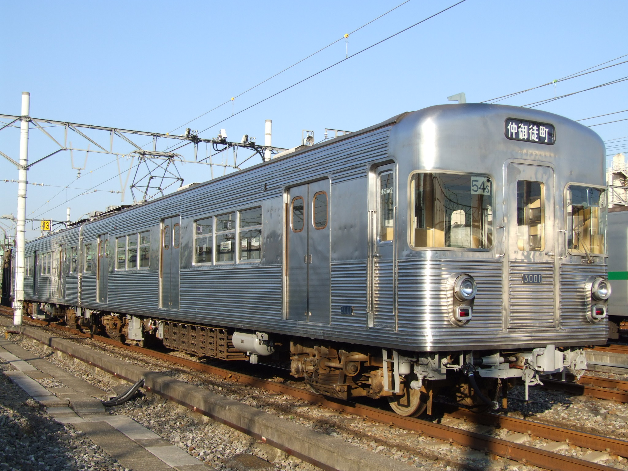 Former TRTA 3000 series 2-car EMU preserved at Tokyo Metro's Ayase Depot